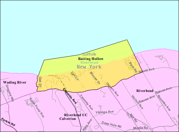 U.S. Census 2000 reference map for Baiting Hollow